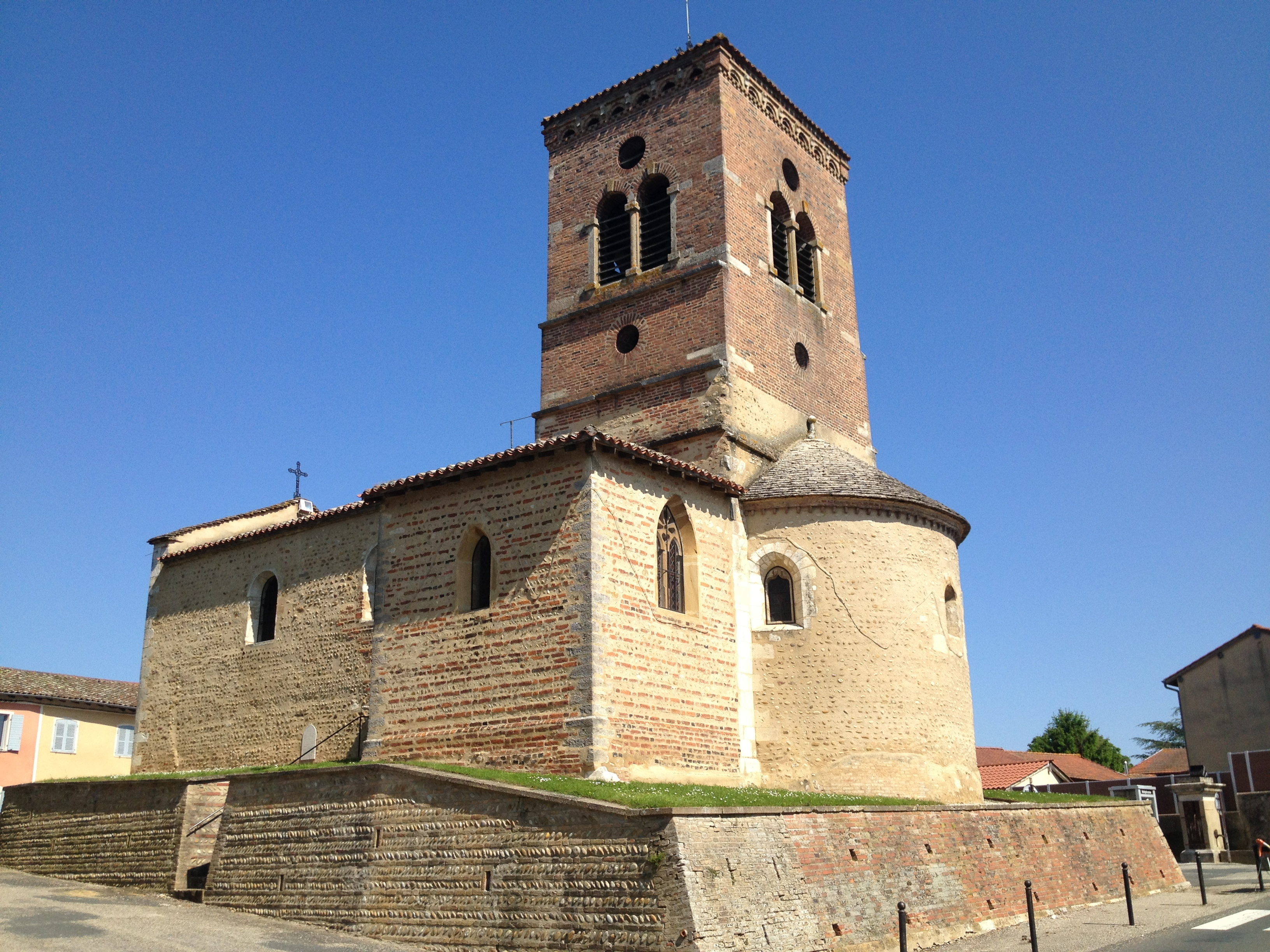 Church of Monthieux.